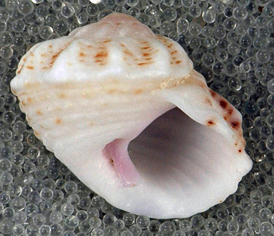 Modulus modulus (Linnaeus, 1758) - apertural view of an Atlantic modulus snail shell, 1.0 cm tall. Family Modulidae - the modulus snails are algae grazers and deposit feeders in shallow-water seagrass bed environments.